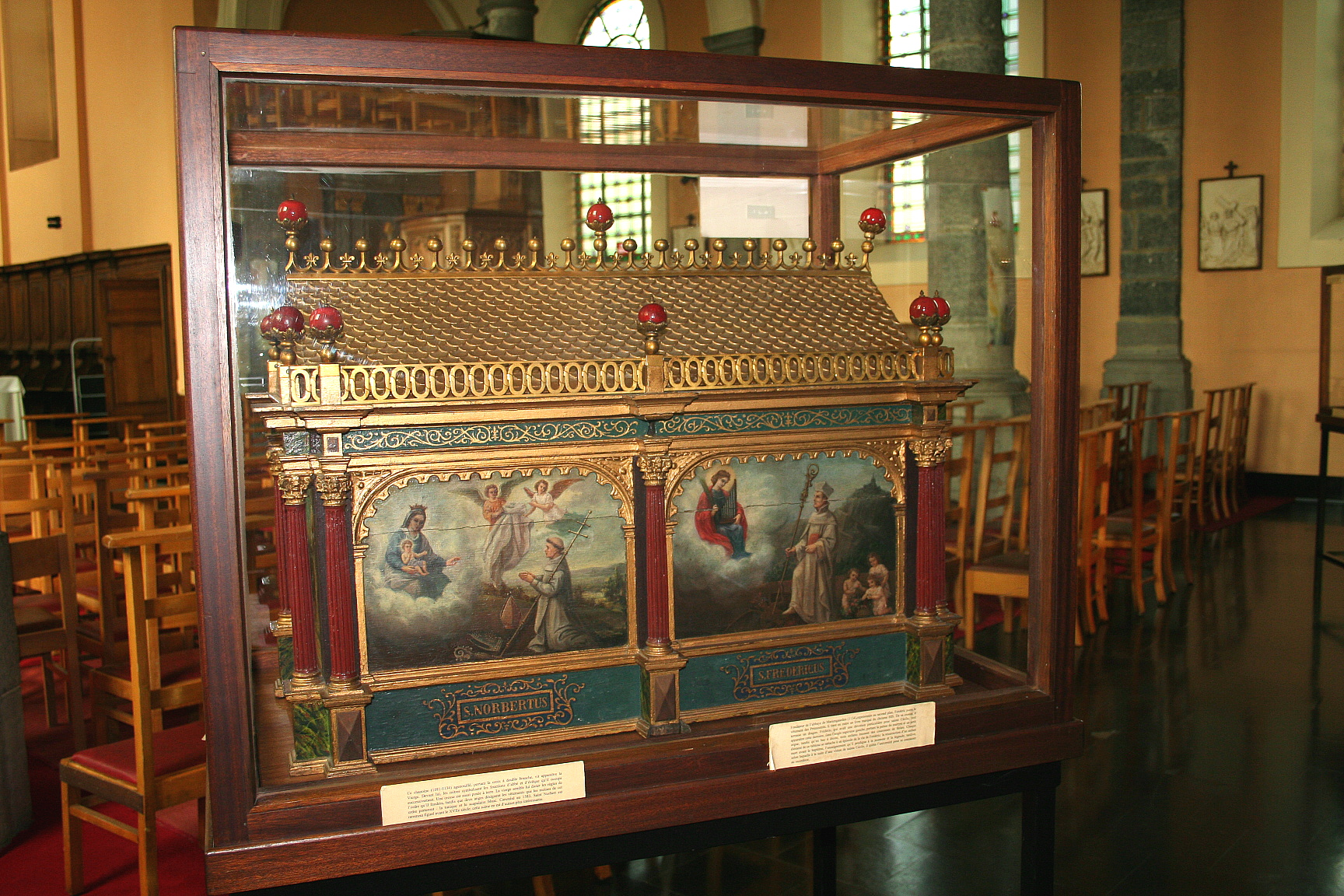 Strépy-Bracquegnies (Belgium), St. Martin’s church - St. Fredericus reliquary (1620).